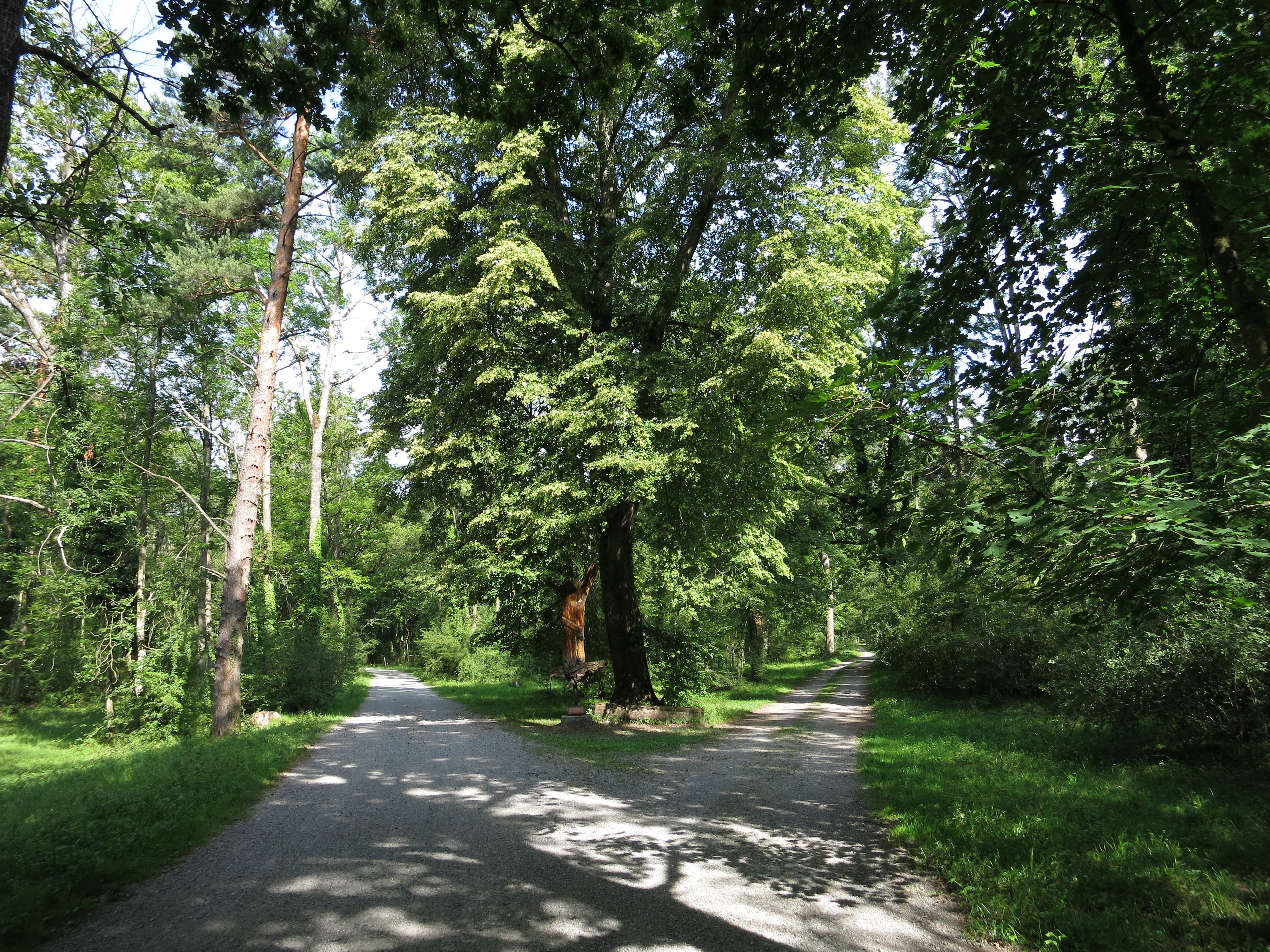 Rheinholz, peninsula in Bodensee